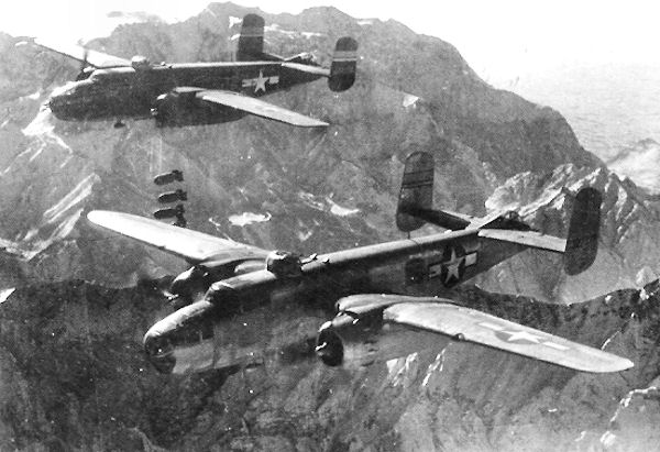 Unidentified B-25J Mitchells of the 310th Bombardment Group, dropping 1,000 pound bombs over the Brenner Pass in Northern Italy, 1944. The Brenner Pass was the group's primary target in late 1944 and 1945, attackng enemy road convoys and rail traffic beetwen Germany and their forces in northern Italy. (USAAF Photograph)